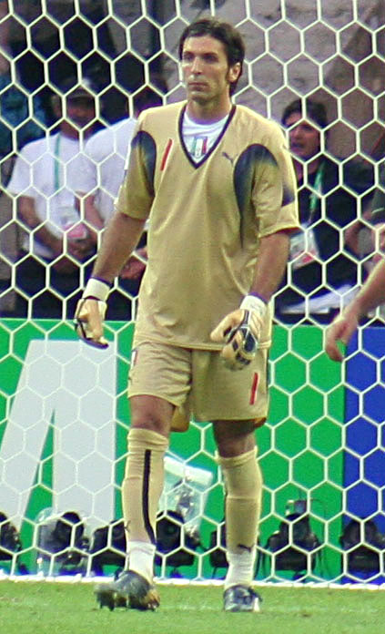 Italy vs France, FIFA World Cup 2006 final, italian goalkeeper Gianluigi Buffon.